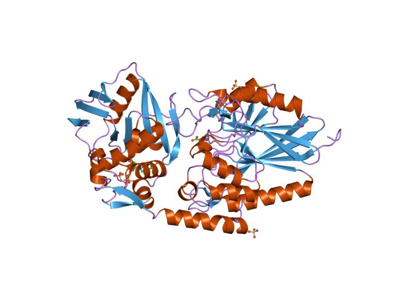 Cartoon representation of the molecular structure of protein registered with 1hp1 code.